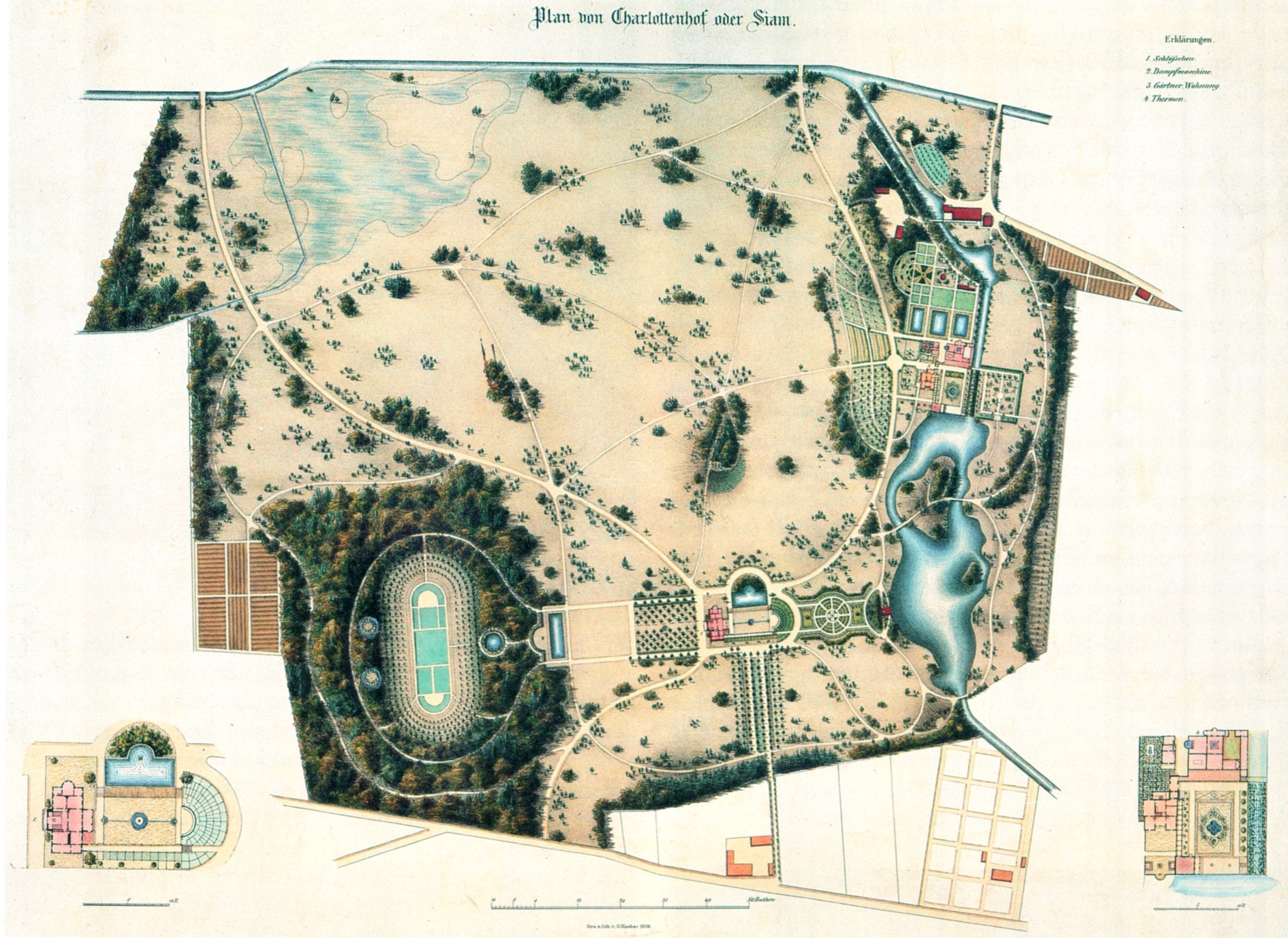 The plan of Charlottenhof landscape park with Schloss Charlottenhof, within the Sanssouci grounds in Potsdam, Germany. Design by Peter Joseph Lenné (Plan von Charlottenhof oder Siam), lithography by Gerhard Koeber - 1839.